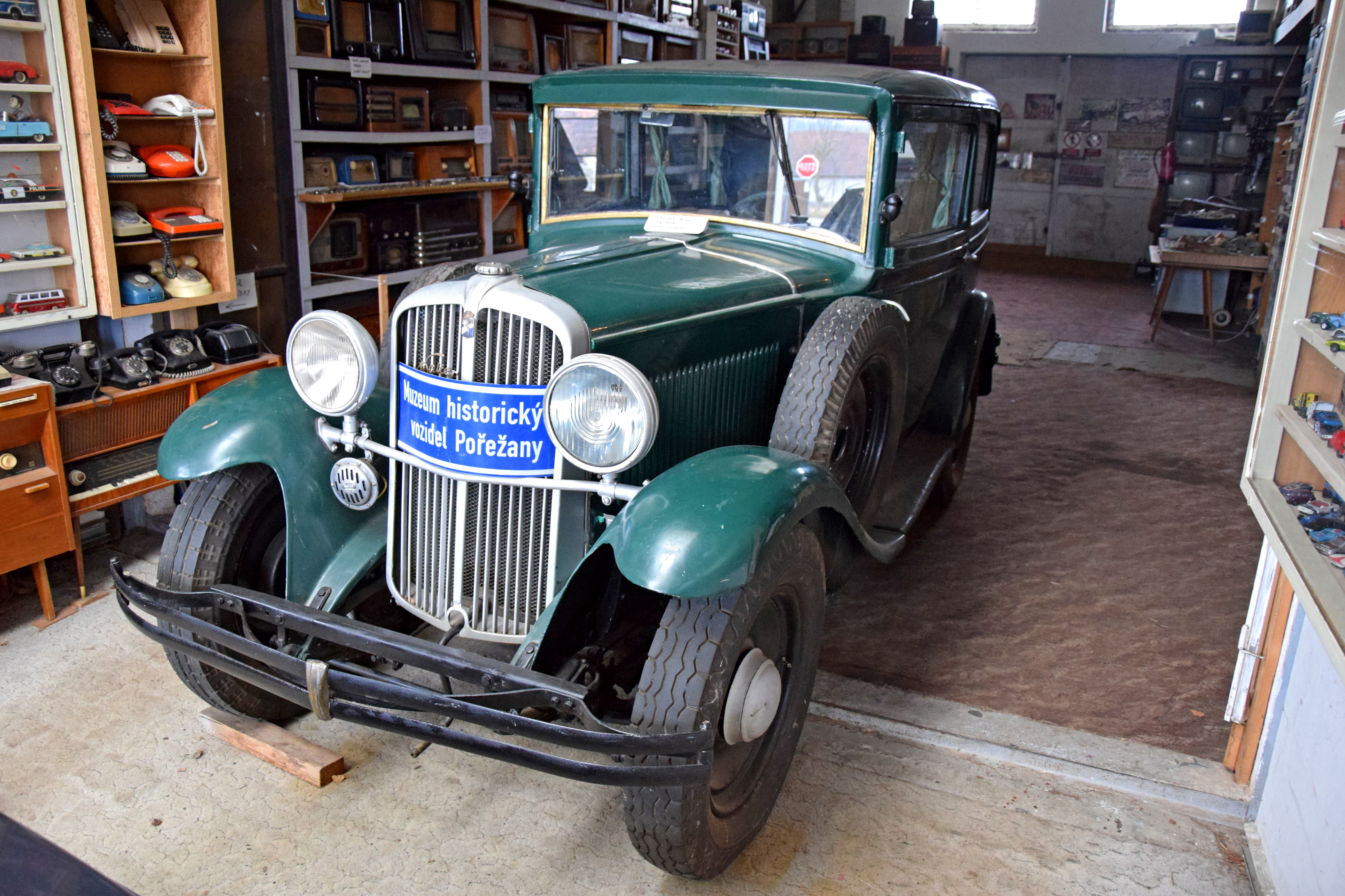 Walter Bijou in the Museum of historical vehicles, agricultural technology and crafts in Pořežany, České Budějovice District, the Czech Republic.